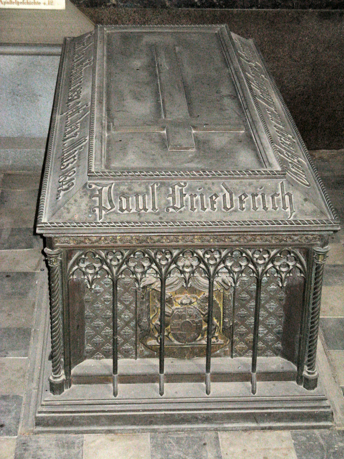 Grave of Paul Friedrich, Grand Duke of Mecklenburg-Schwerin 1837-42, in the Schwerin Cathedral